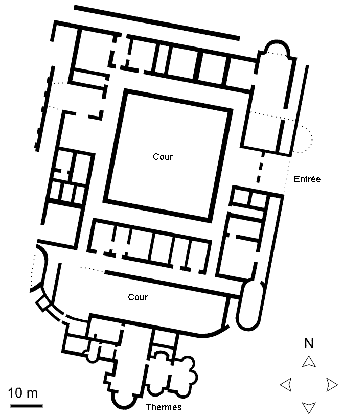 Map of the Séviac Villa (Gers, France)